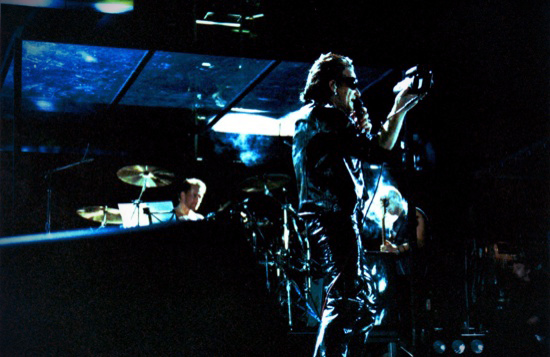 Bono of the Irish rock band U2 performing on November 13, 1993, at the Melbourne Cricket Ground in Melbourne, Australia, on their Zoo TV Tour